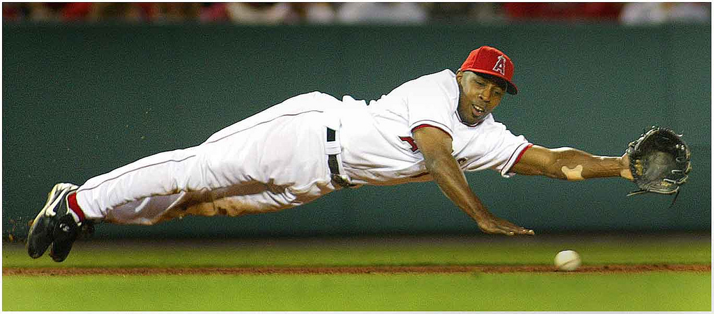 Chone Figgins diving for ball